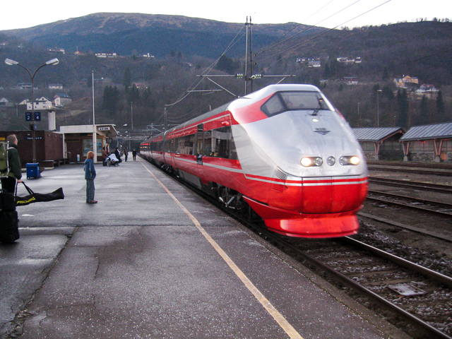 The afternoon express train from Bergen to Oslo is arriving at Arna station.